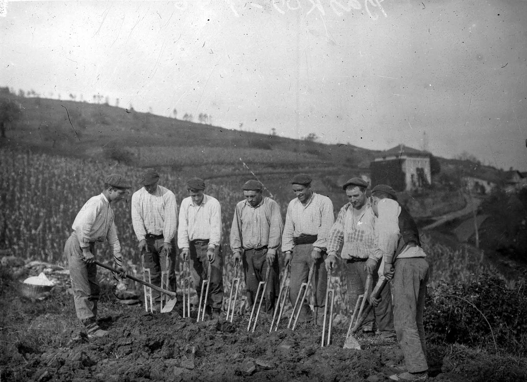 A picture of laiariak/layadores